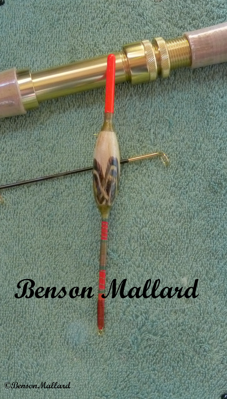 15mm Inlaid Feather River Stick by Benson Mallard Handmade Floats. Silk whipped, sealed and varnished with bottom and mid body line loops. One of a range of river and lake floats with a modern twist to the traditional.